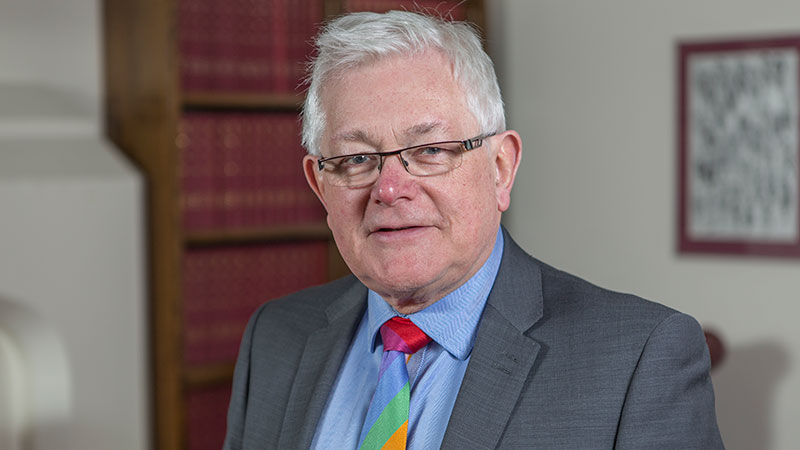 Lord German